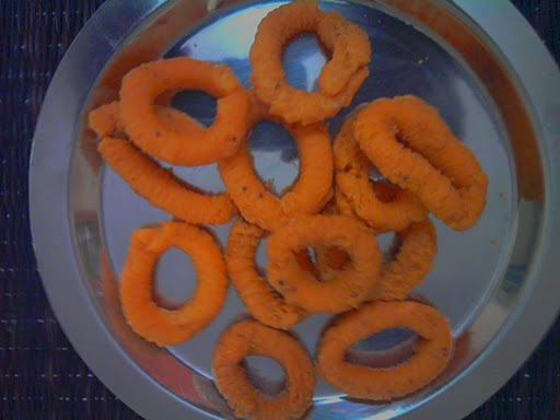 Indian snack, Chekodi.